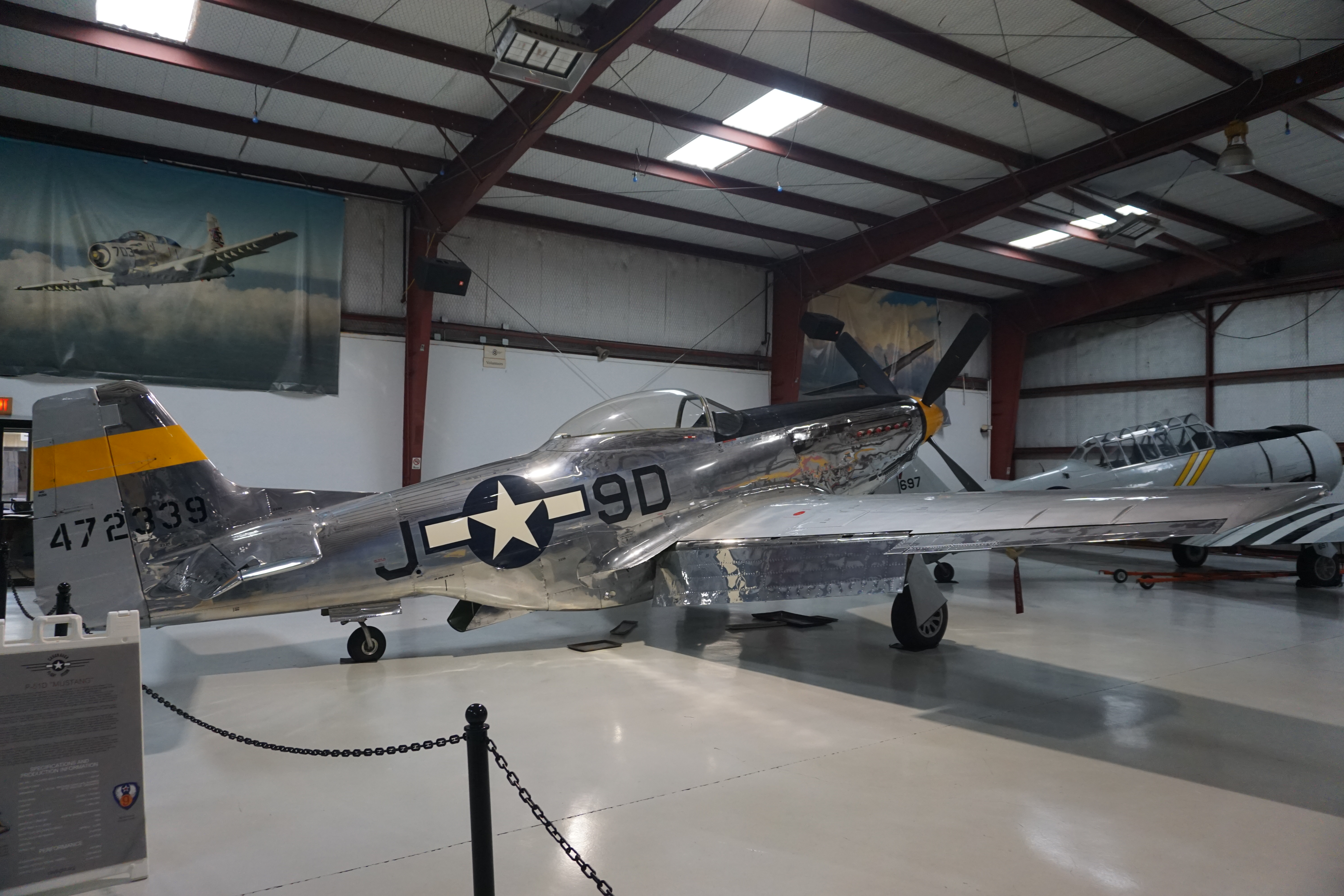 A North American P-51D Mustang on display at the Cavanaugh Flight Museum at Addison Airport in Addison, Texas (United States).